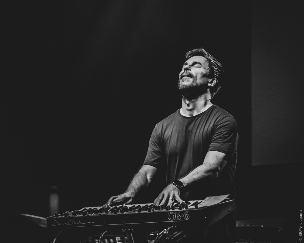 BT of All Hail The Silence live at The Paramount, Huntington, New York, 2019-06-06